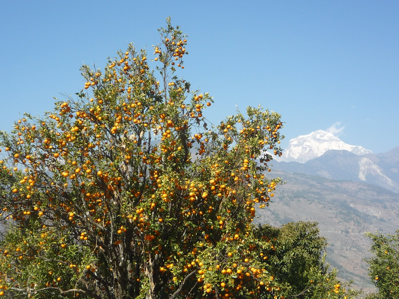 Orange